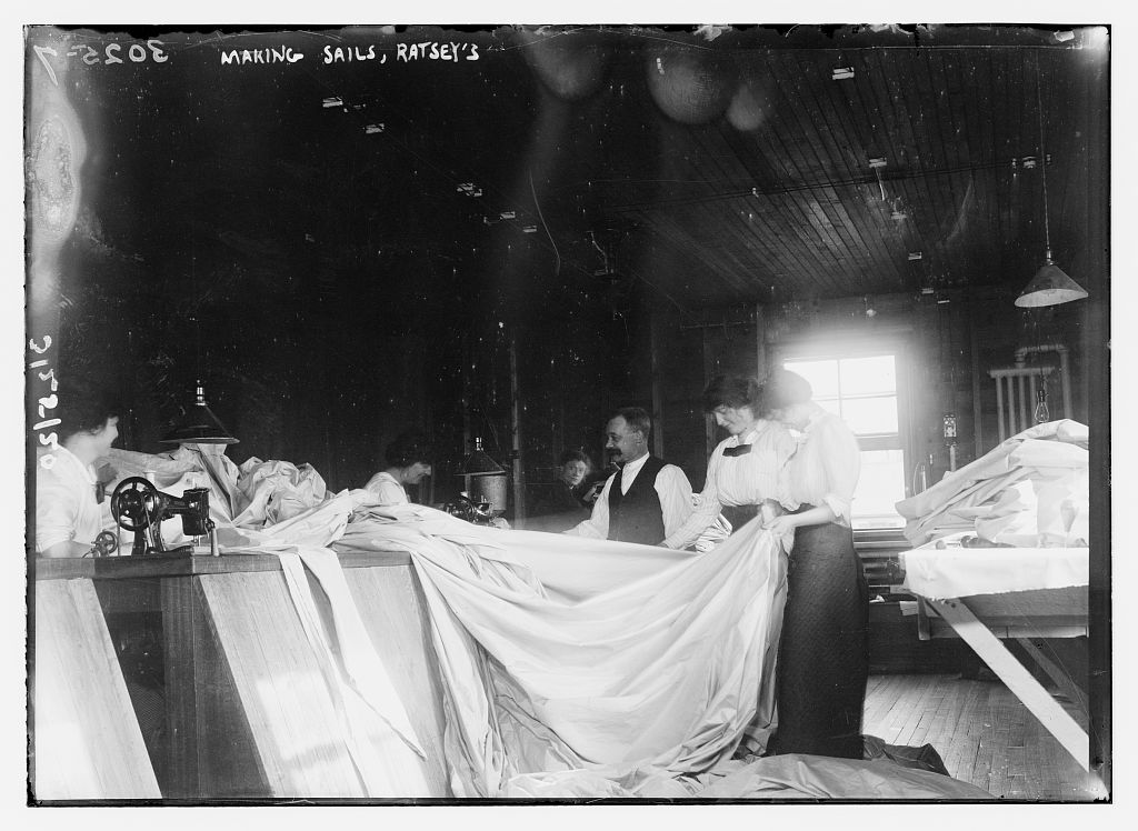 Making Sails, Ratsey's (LOC) Bain News Service,, publisher. Making Sails, Ratsey and Lapthorn on City Island circa 1914 [between ca. 1910 and ca. 1915] 1 negative : glass ; 5 x 7 in. or smaller. Notes: Title from unverified data provided by the Bain News Service on the negatives or caption cards. Forms part of: George Grantham Bain Collection (Library of Congress). Format: Glass negatives. Repository: Library of Congress, Prints and Photographs Division, Washington, D.C. 20540 USA, General information about the Bain Collection is available at Persistent URL: Call Number: LC-B2- 3025-7